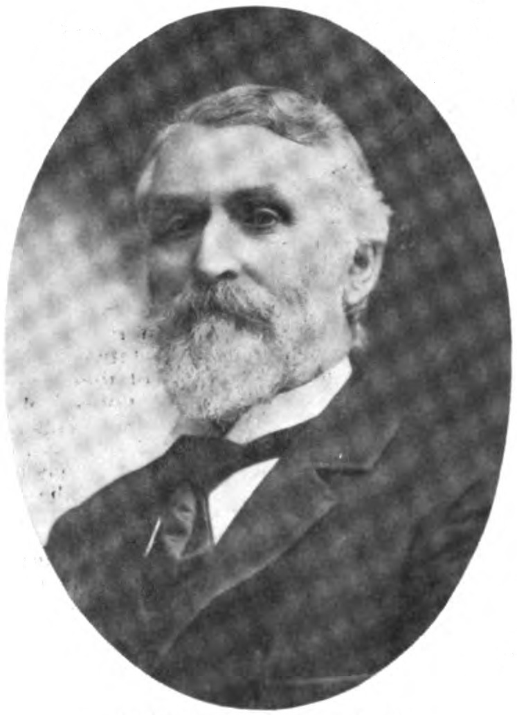 Eleazer L. Waterman (Vermont Judge)